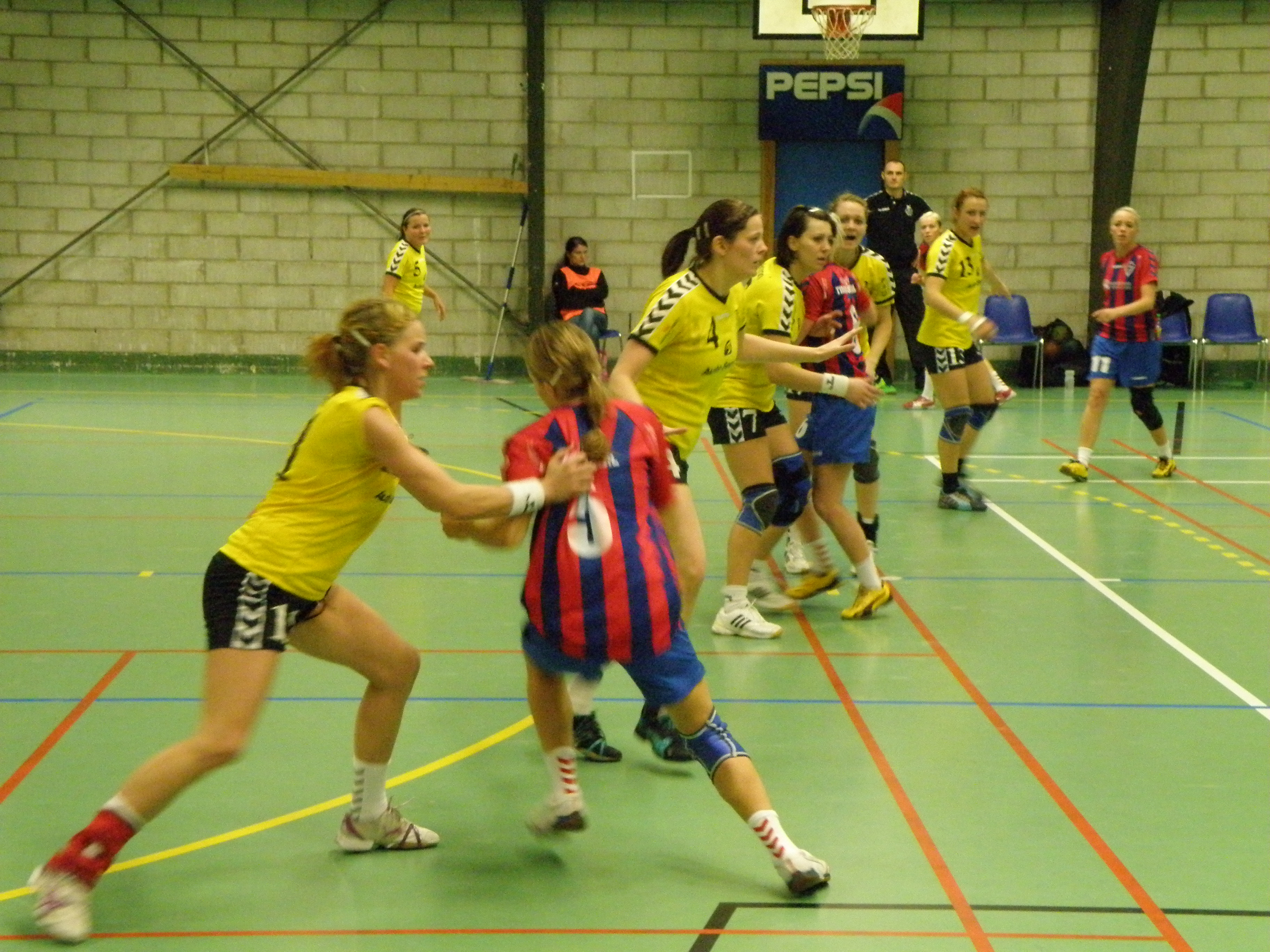 Handball game in the women's top division of the Faroe Islands. The game was played inside the Vágshøll in Vágur on 27 November 2010 between VB from Vágur and Tjaldur from Runavík. Tjaldur won the game, 25-21. Føroyskt: Hondbóltsdystur í Sunsetdeildini. Dysturin varð spældur í Vágshøll 27. november 2010 millum VB og Tjaldur. Úrslitið var 21-25, Tjaldur vann dystin.